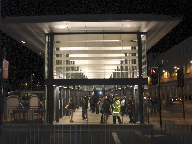 The new bus terminus, Bath